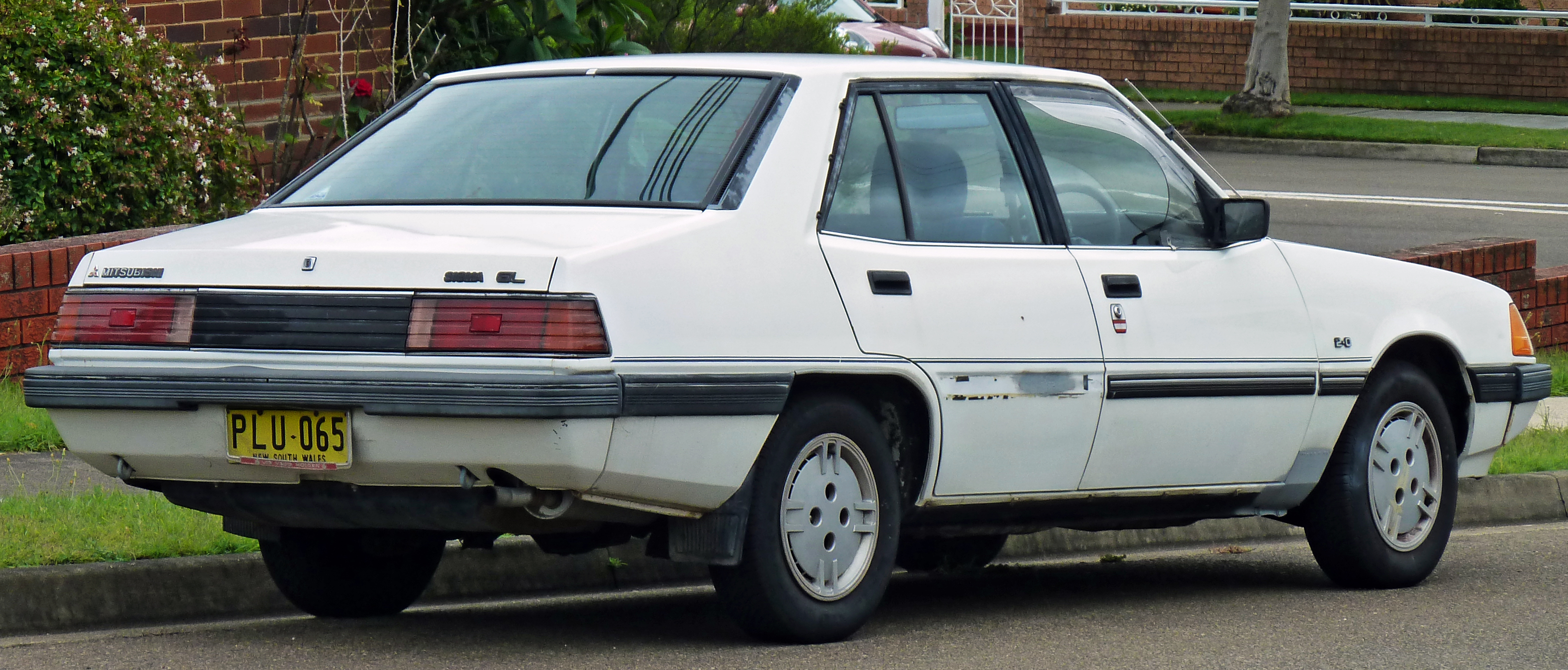 1985 Mitsubishi Sigma (GK) GL sedan. Photographed in Beverley Park, New South Wales, Australia.